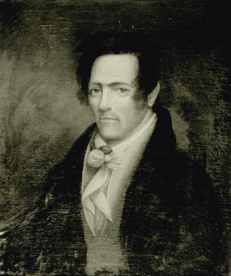 Photograph of a painting of Joshua Barton